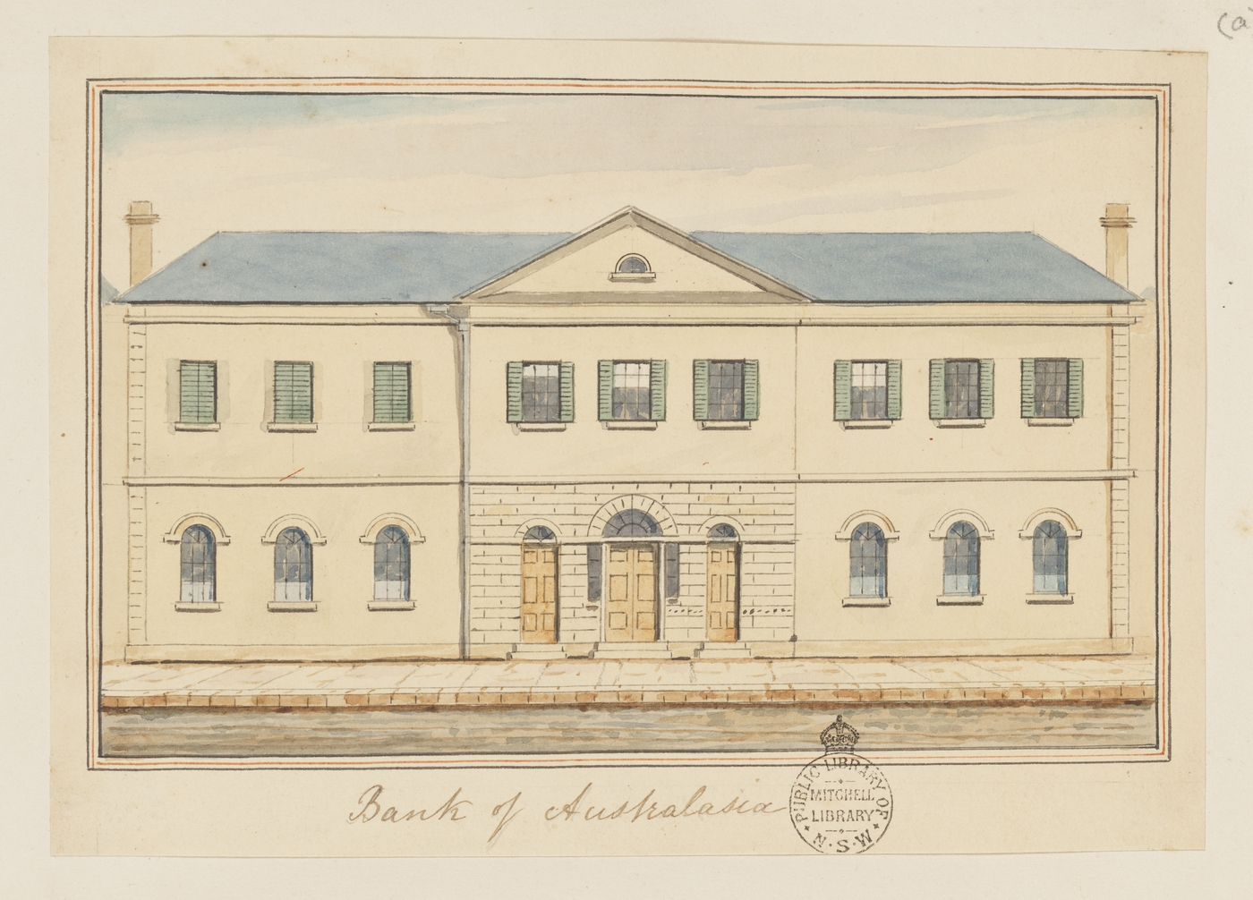 Painting by Frederick Garling of the Sydney branch of the Bank of Australasia